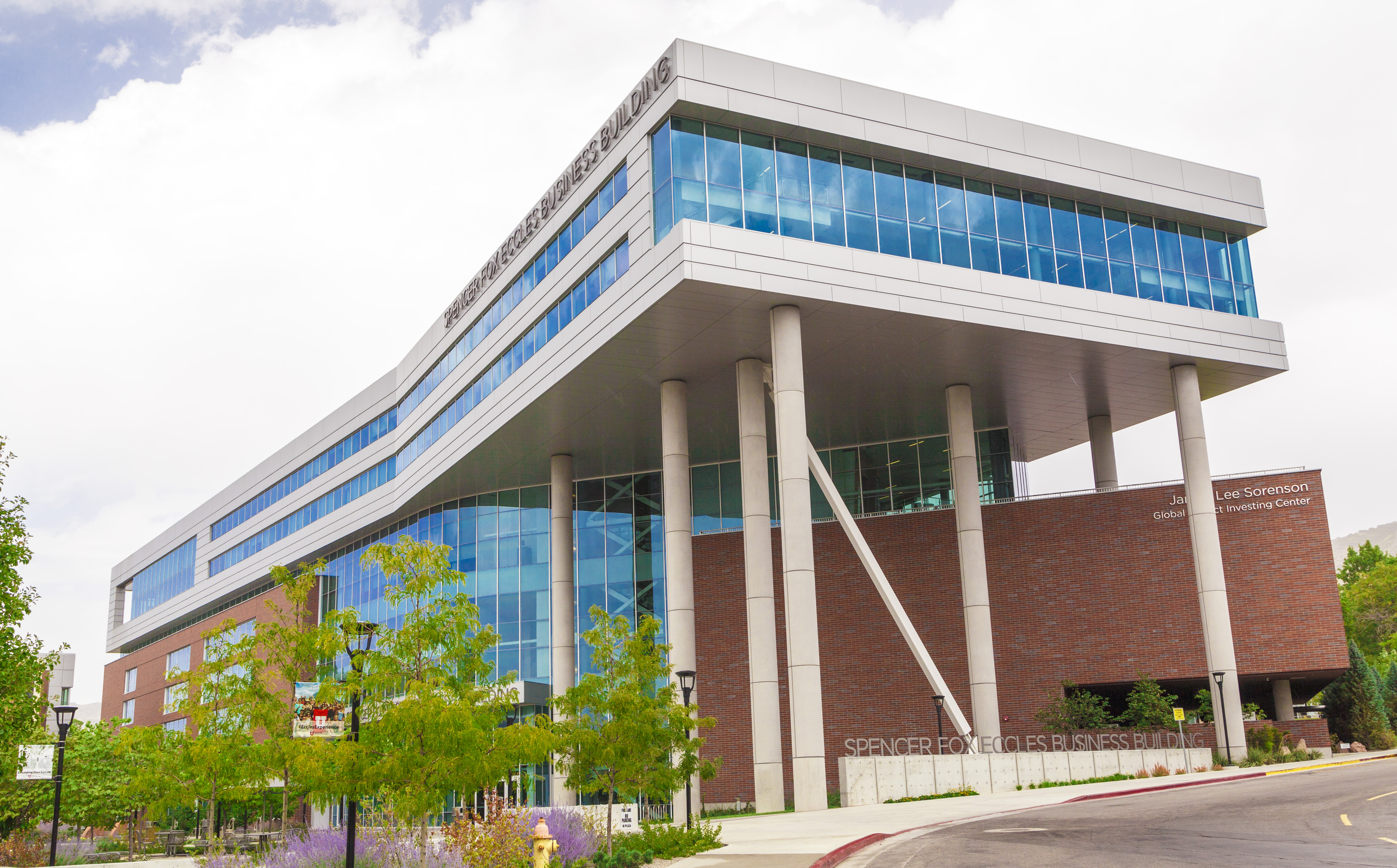 Exterior of the Spencer Fox Eccles Business Building of the David Eccles School of Business at the University of Utah in Salt Lake City, Utah, USA.